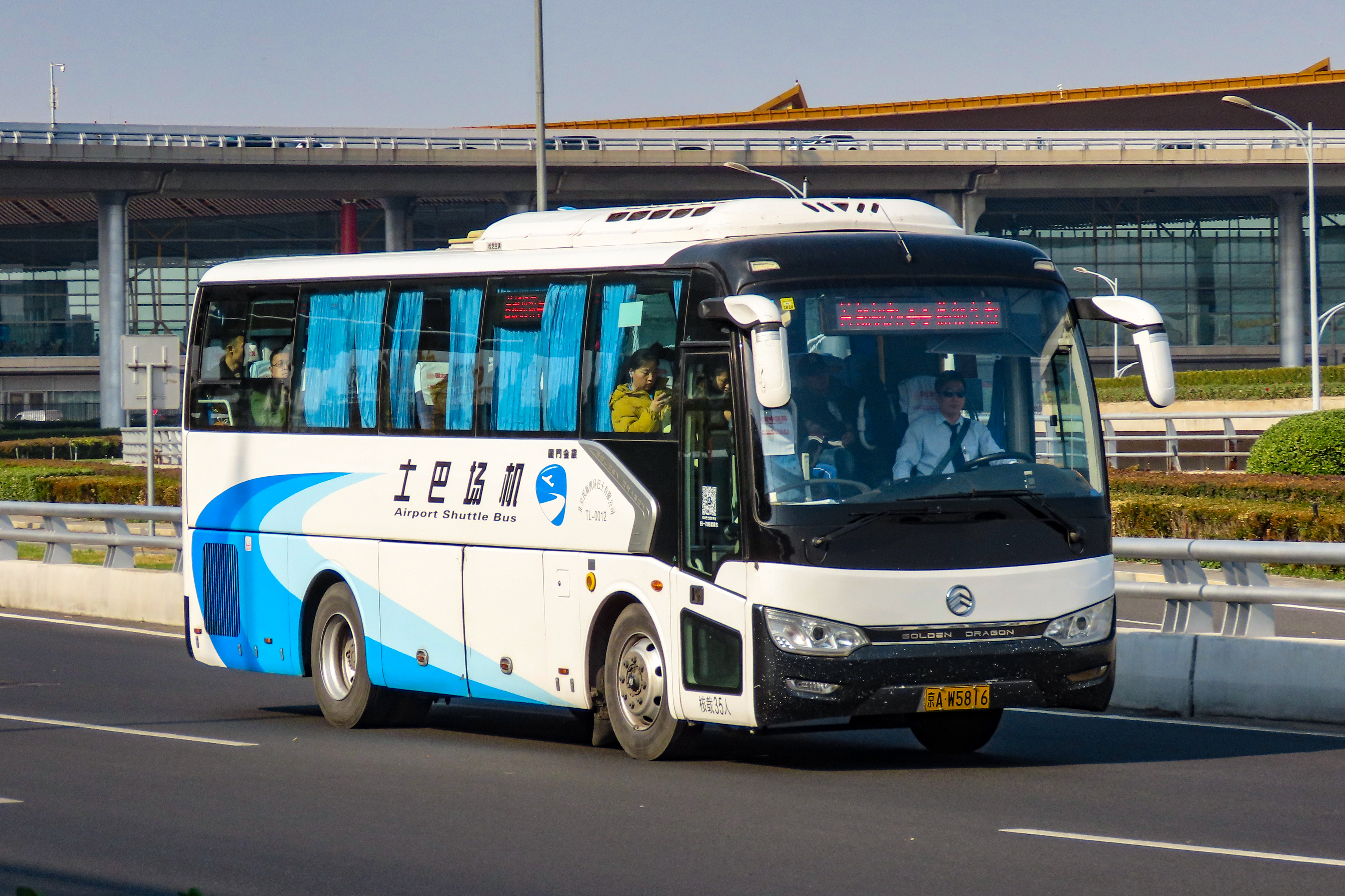 This one to Yanjiao, Sanhe, Hebei.